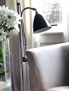 armchair, vase, pillow and bestlite lamp